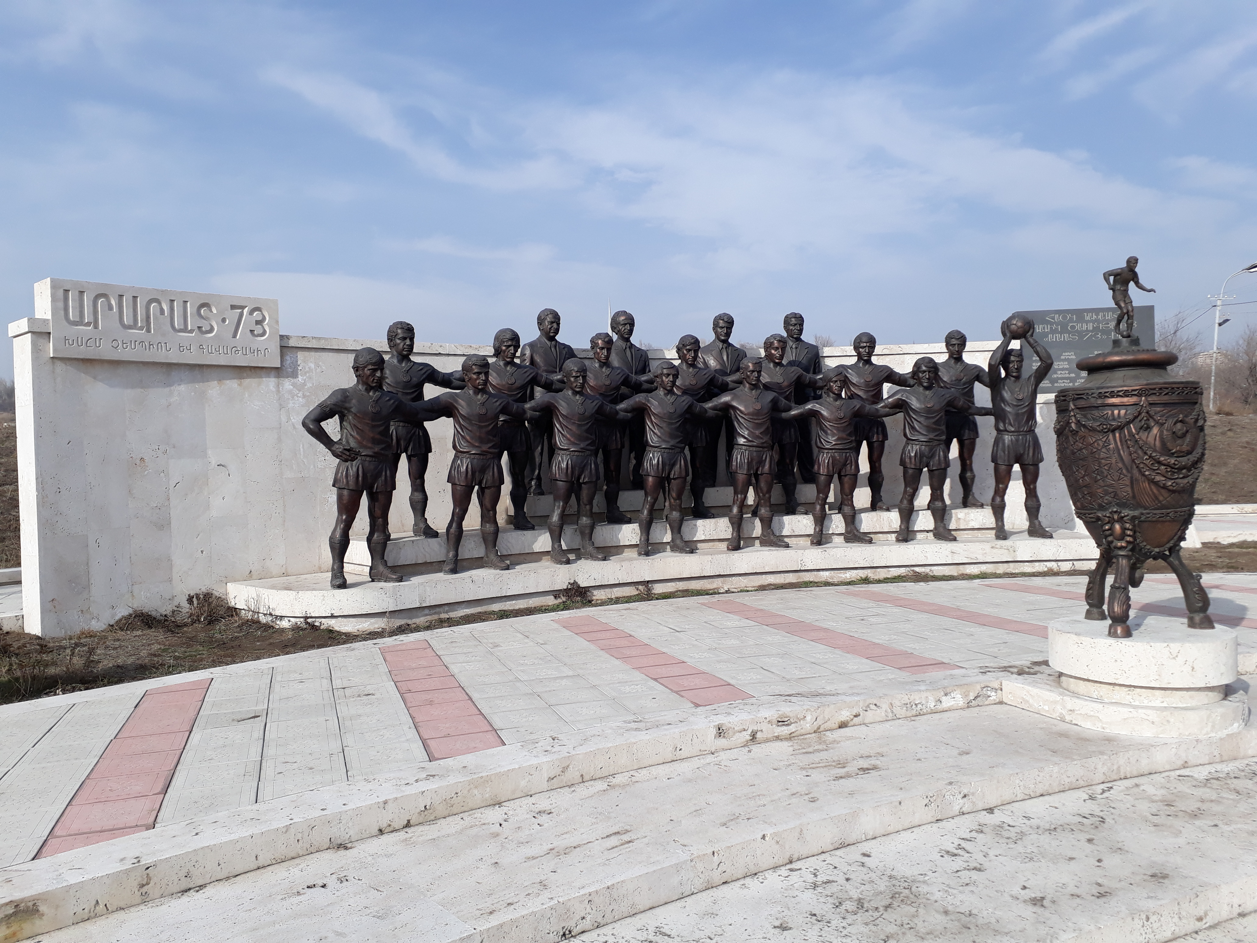 Sculpture dedicated to the football team "Ararat Yerevan" which won the Soviet union championship in 1973. It is located nearby the Hrasdan stadium in Yerevan, Armenia.